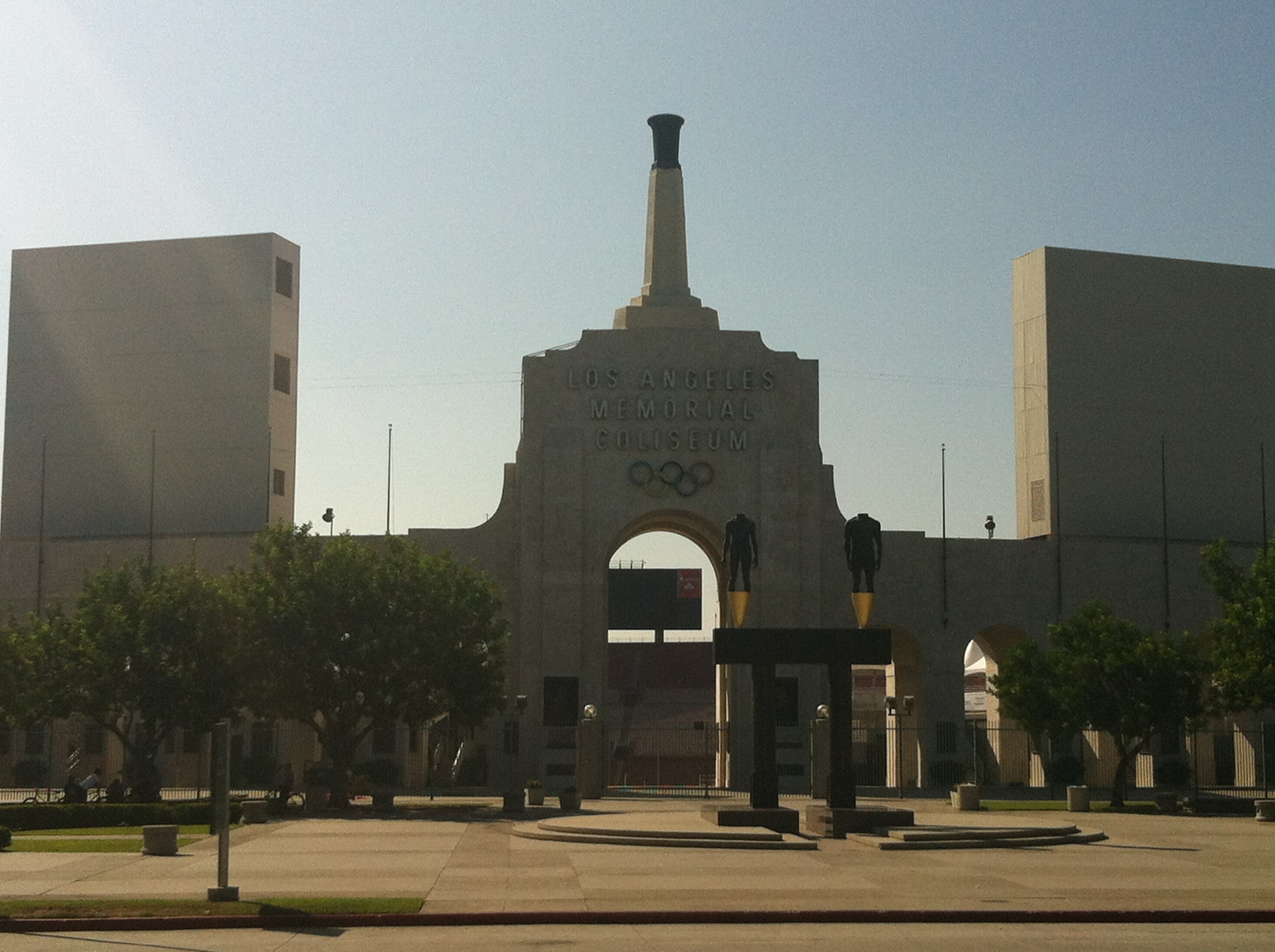 Los Angeles Memorial Coliseum